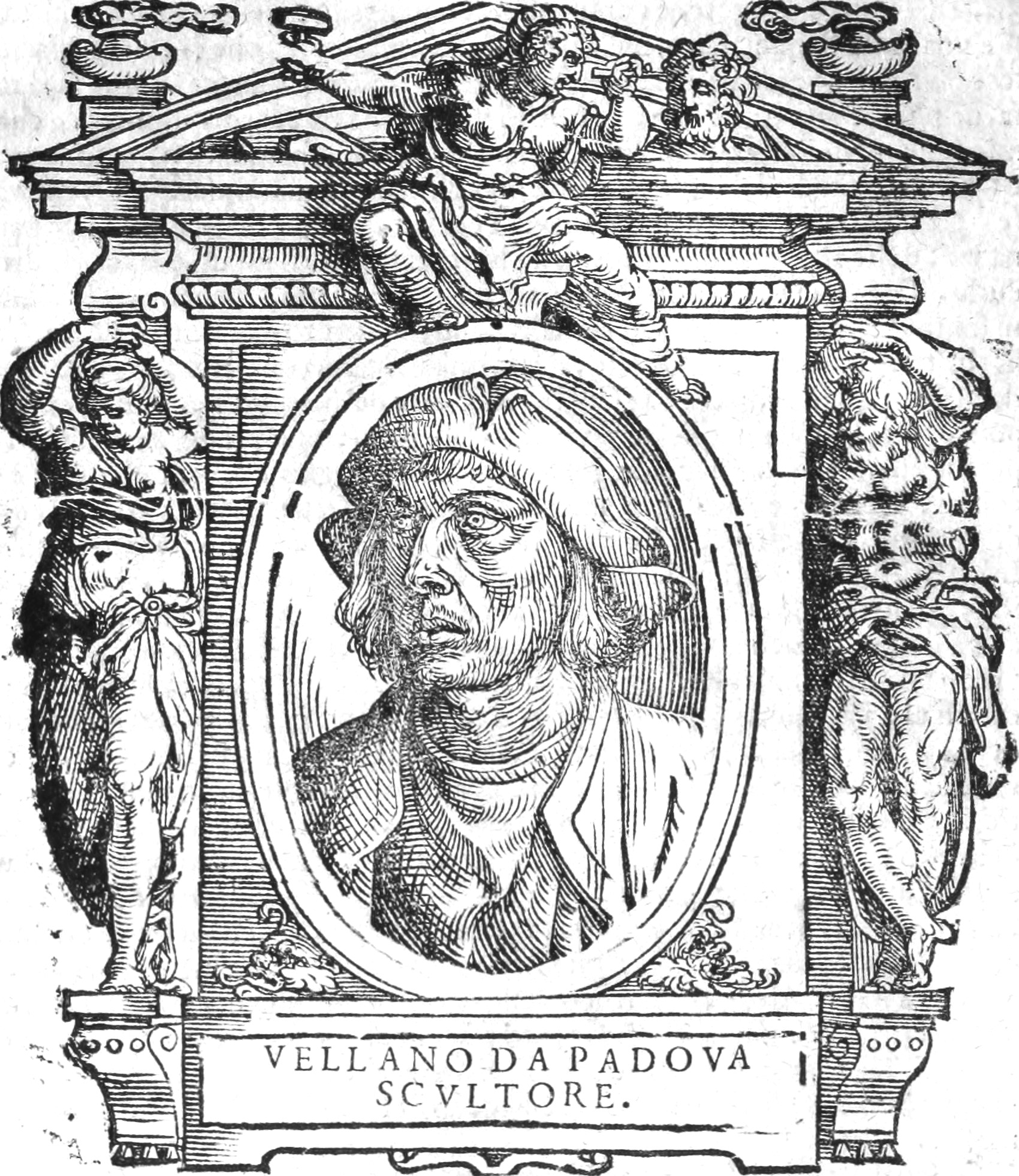 Title: Delle vite de' più eccellenti pittori, scultori, et architetti Year: 1648 (1640s) Authors: Vasari, Giorgio, 1511-1574 Subjects: Artists Art, Italian Publisher: In Bologna : Per gli eredi di Euangelista Dozza Text Appearing Before Image: tj fé* G amom y,v„ce a frefeo il Dio Padre » con quegli Angeli * che vi fono ancora. . tentini tuo di* Dicono » che il Magnifico Lorenzo de* Medici ragionando vn dì Col Graffione » rCiuUmche era vn firauagante ceruello, gli diffe ; Io vogl o far fare di mufaico , e di ftuc-chi tutti gli fpigoli della cupola di dentro : E che il Graffione rifpofe ; voi non cihauete Maeftri \ A che replicò Lorenzo : noi habbiam tanti danari» che ne fare*tno jil Graffione fubitamente fuggiunfe. Eh Lorenzo » i danari non fanno mae-ftn, ma i maeftr, fanno I danari. Fu coftui bizzarra » e fantastica perfona.- Notimangiò mai in cafa fua a tauola, che fuffe apparecchiata daltro» che di Suoi Carto-ni: e non dormì in letto» che in vn caffone pien dpaglia » fenza lenzuola. Ma Sepoltura &tornando ad Alefio egli finì larte, e la vita nel 1448. e fu da 1 fuoi parenti»e citta* ^lePdini Sotterratohcnoreuolmente. Ilfine della vita di lAlefJv Baldoinetti Vittore fiorentino * VEL* 488 SECONDA PARTE Text Appearing After Image: PeHajfo imifa la manie*rn ài Donato